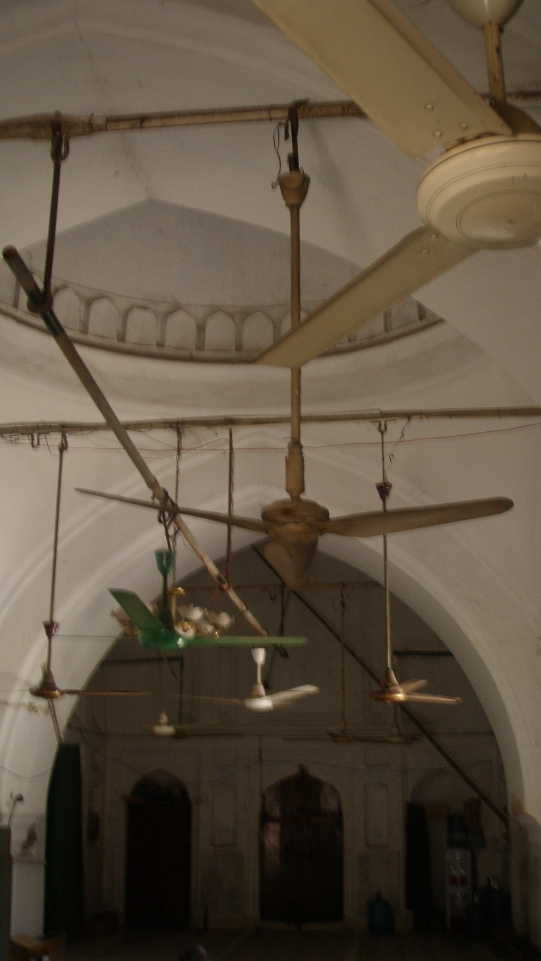 Sat Gambuj Mosque(Interior), Dhaka